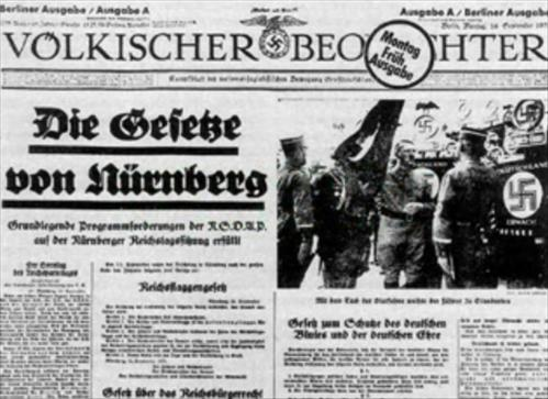 Nuremberg Laws are published in a newspaper in 1935